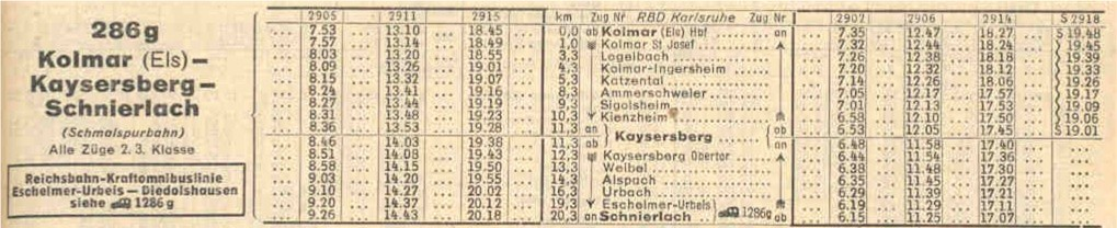 Timetable / Fahrplan Colmar-Schnierlach (Now in France, but at the time in German occupation)